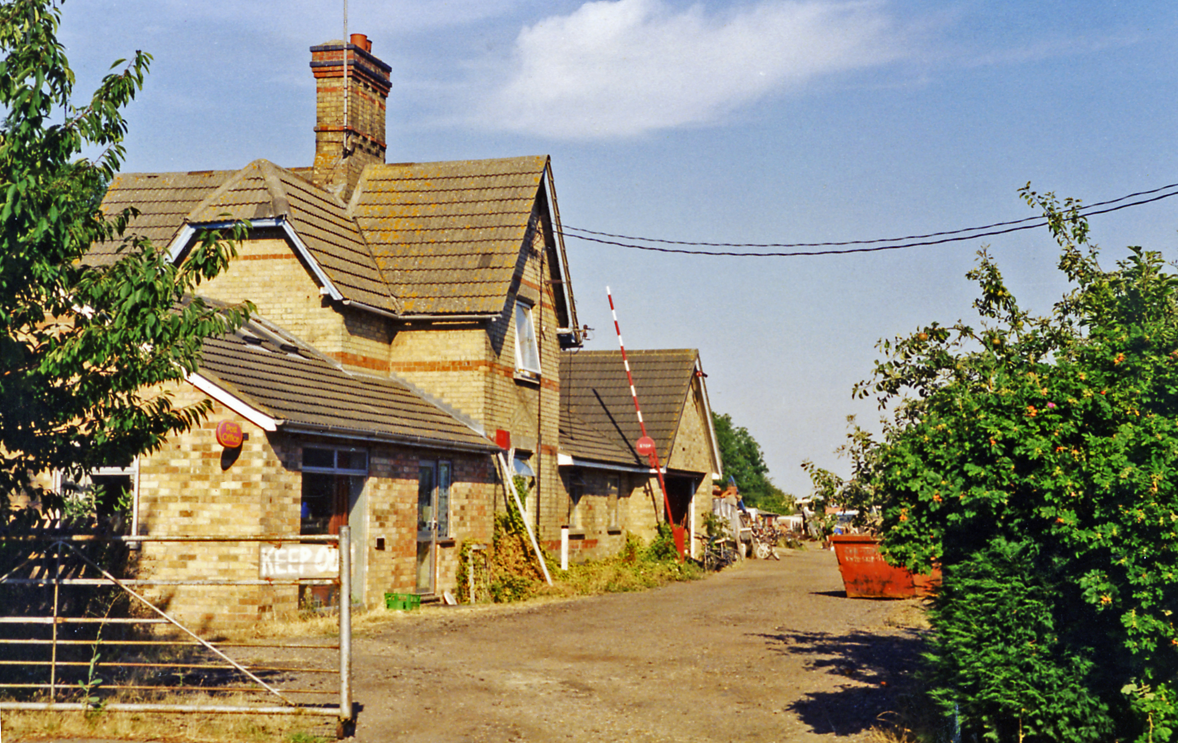 Grafham: former station, 1995. View eastward, towards Huntingdon: ex-Midland Kettering - Huntingdon East line, thence ex-GER to St Ives and Cambridge. The station and line were closed 15/6/59 - evidently now a farmhouse.